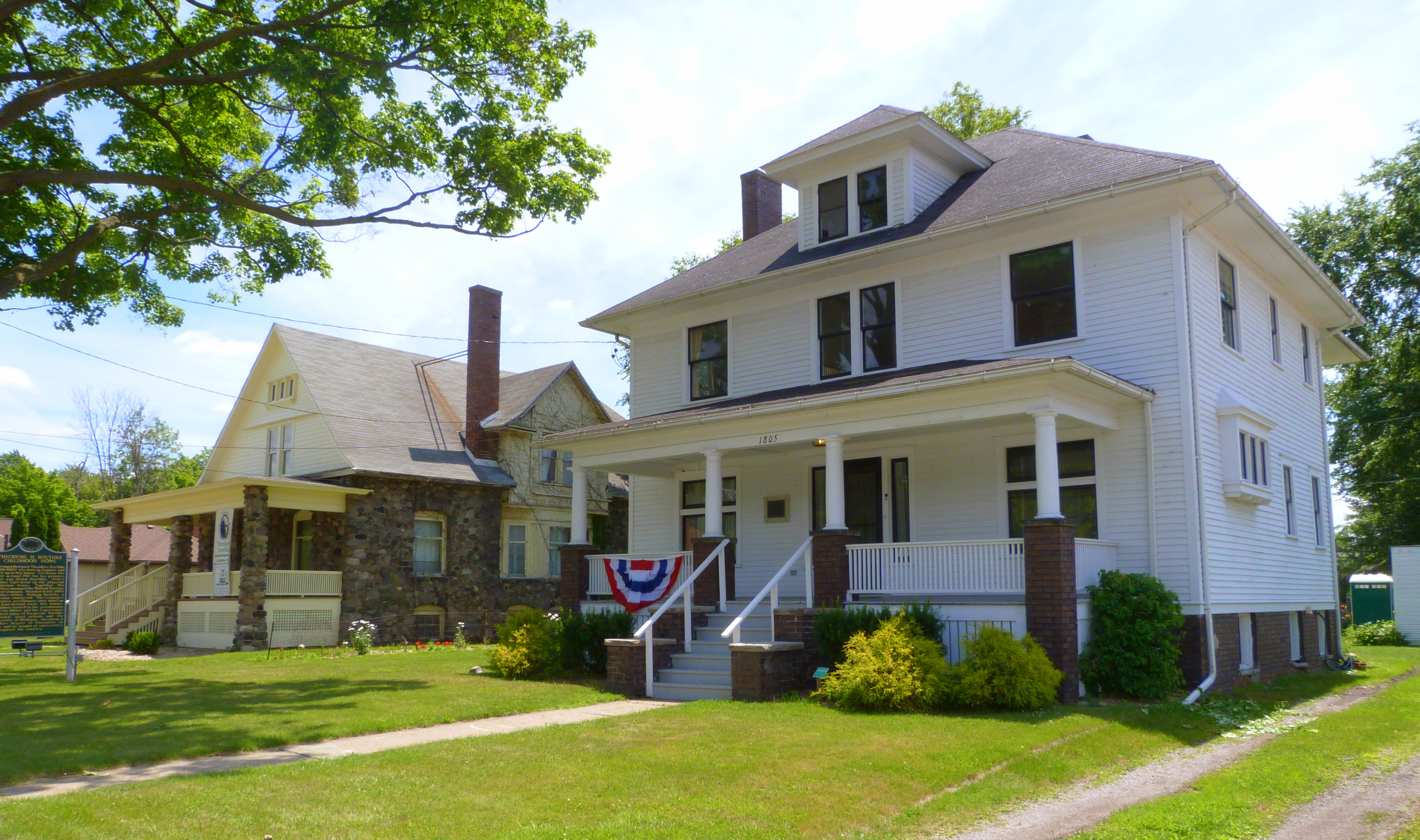 The historic Roethke Houses (left: Carl Roethke House, right: Otto Roethke House), located at 1795 and 1805 Gratiot Avenue in Saginaw, Michigan, United States, are jointly listed on the US National Register of Historic Places. The Otto Roethke House was the childhood home of poet Theodore Roethke.